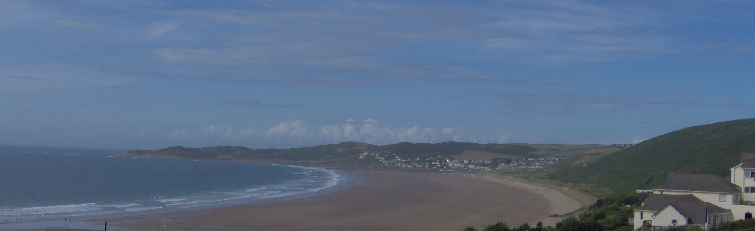 Putsbourough Beach, taken from the car park looking towards Woolacombe. Taken by Rod Ward, August 2006